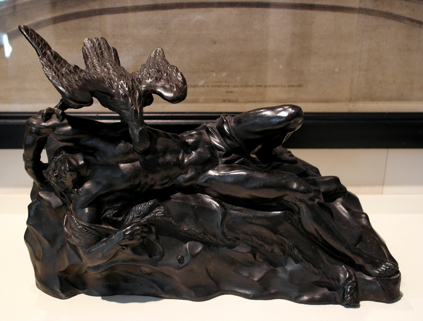 Guillaume Évrard (attr.), Prometheus in chains on the rock (bronze, avant 1794), originally in the summer palace of the prince-bishops in Seraing, now in Museum Grand Curtius, Liège, Belgium.